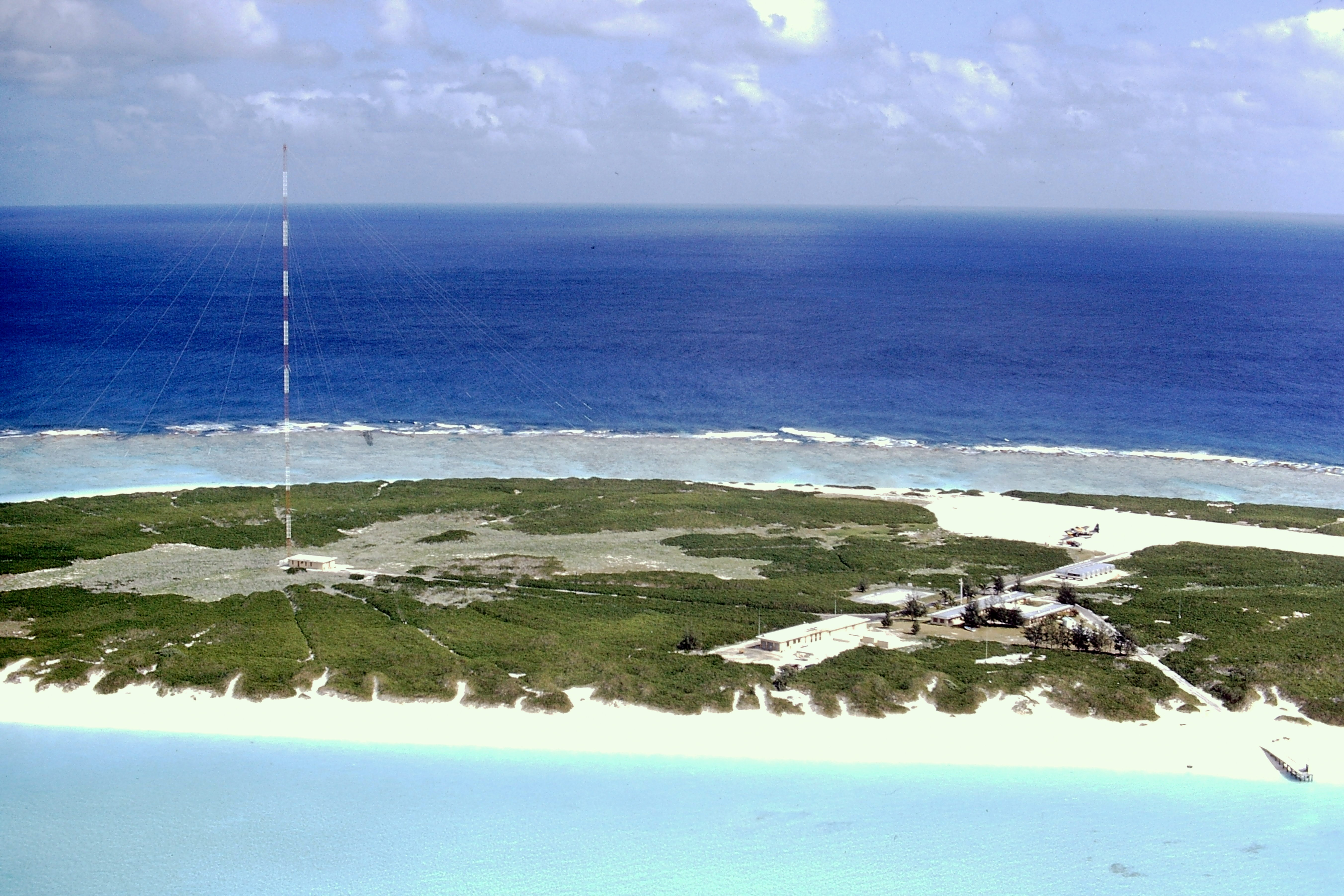 The United States Cost Guard LORAN station on Kure Atoll in 1971. Photographer is Joel I. Greenberg.